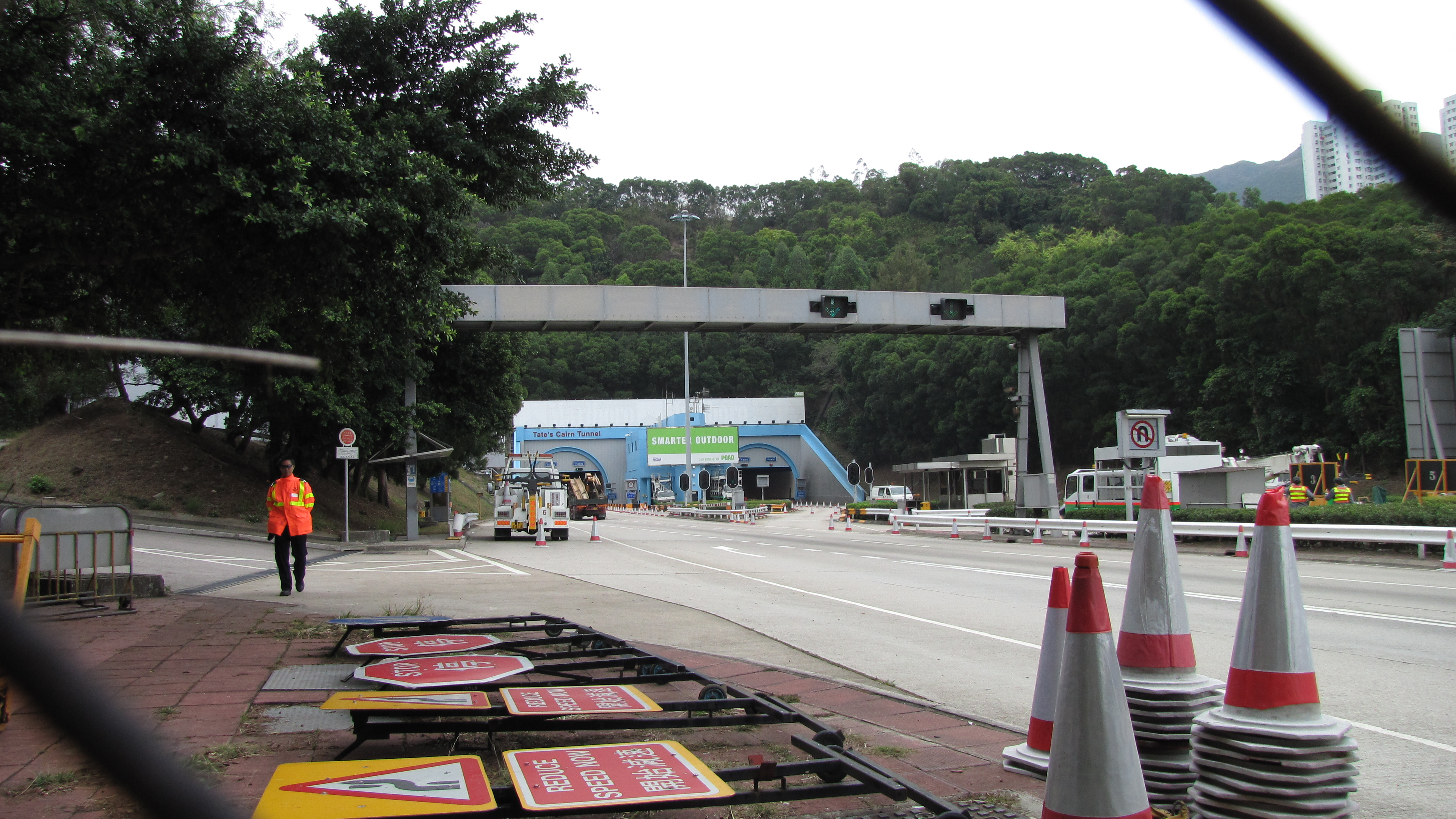 Tates Cairn Tunnel - Diamond Hill Entrance